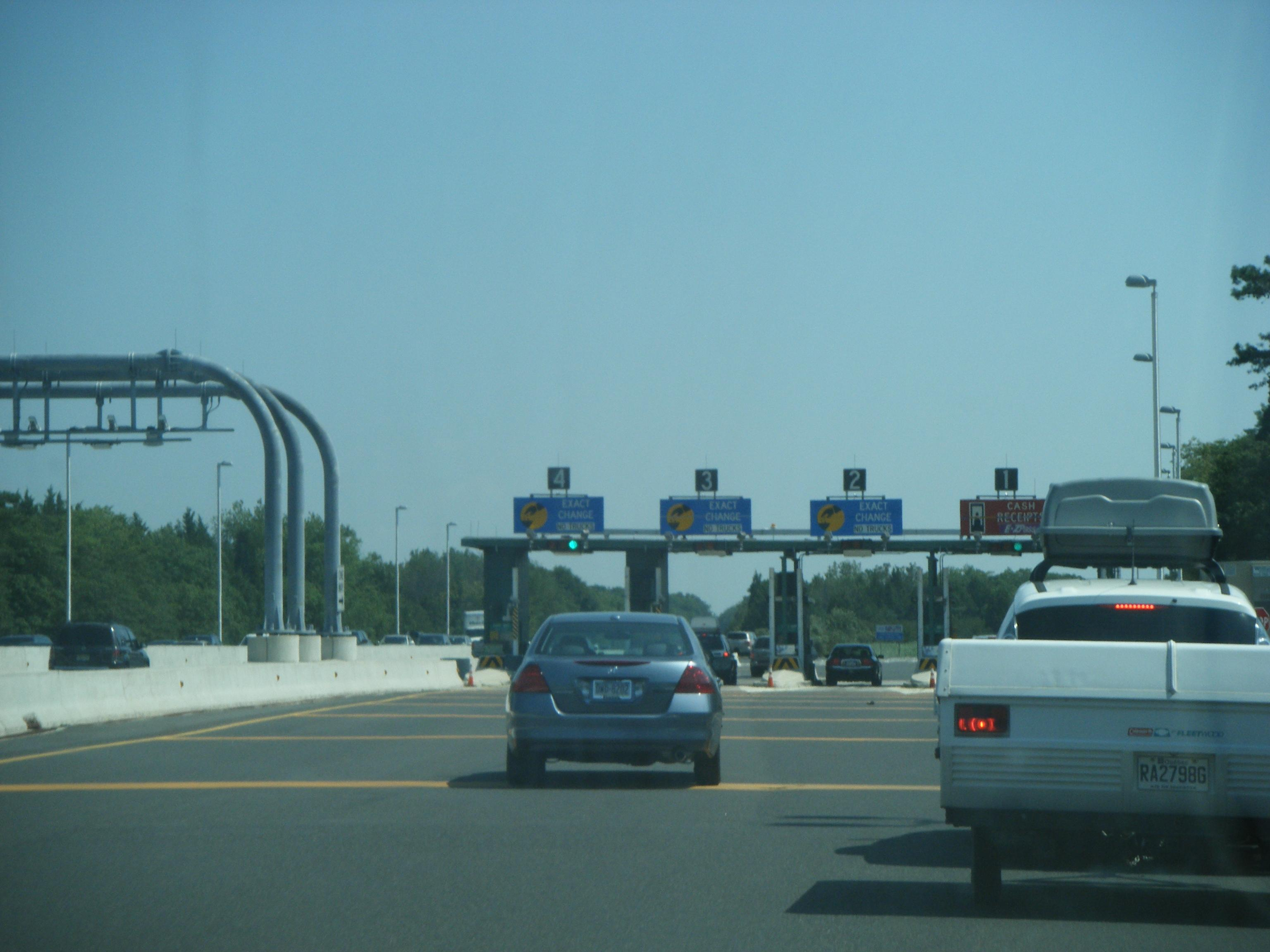 Cape May Toll Plaza on northbound Garden State Parkway in Upper Township, New Jersey featuring Express E-ZPass lanes